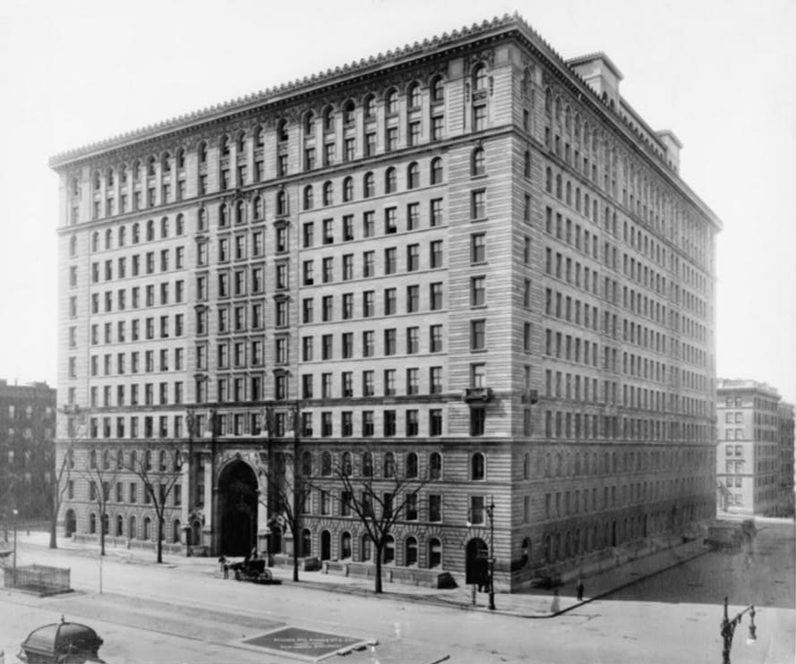 Apthorp Apartments Broadway & 78th St., New York City. Image courtesy of Historic American Buildings Survey—HABS.